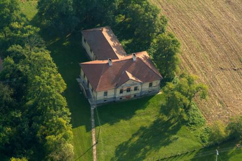 Kisnamény, Hungary, aerialphotography This is a photo of a monument in Hungary, Identifier: 8270